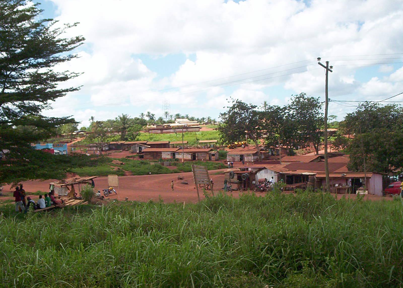 A crossroads in Lomié, East Province, Cameroon